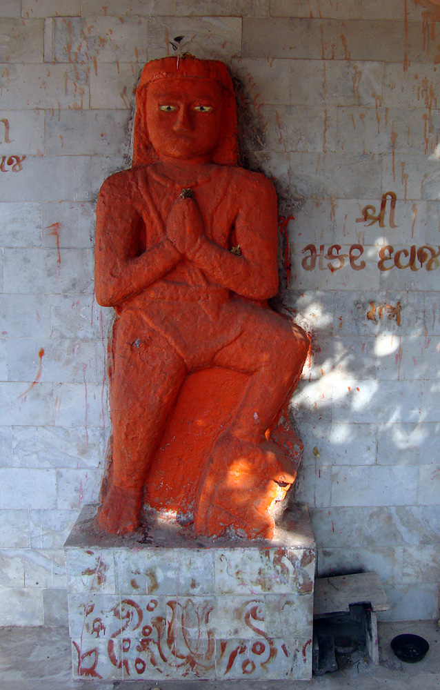 Makardhwaja (At Odadar village - Porbandar, Gujarat, India) ગુજરાતી: મકરધ્વજ ની પ્રતિમા, ગોરખનાથ મંદિર, ઓડદર, પોરબંદર, ગુજરાત, ભારત.